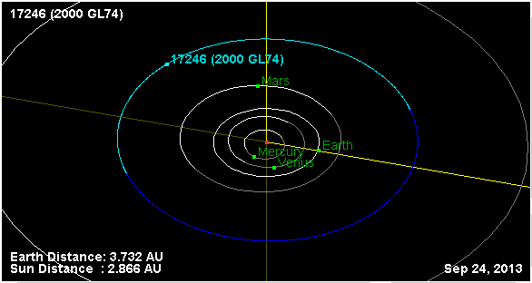 This diagram shows the circular orbit of 2000 Gl74